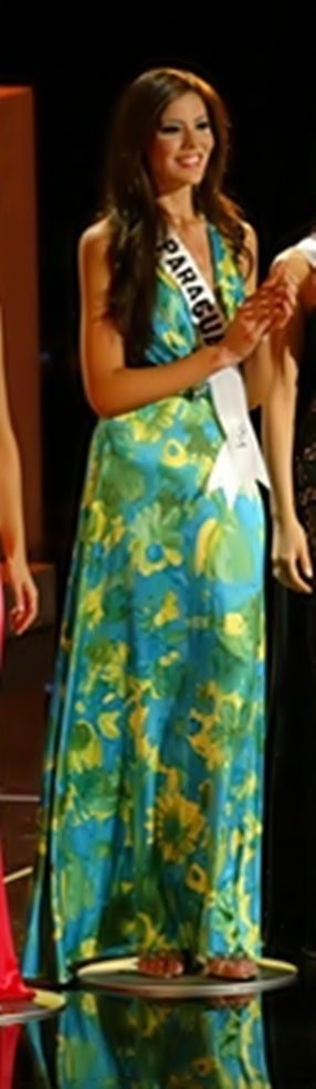 Five finalists at Miss Universe'06